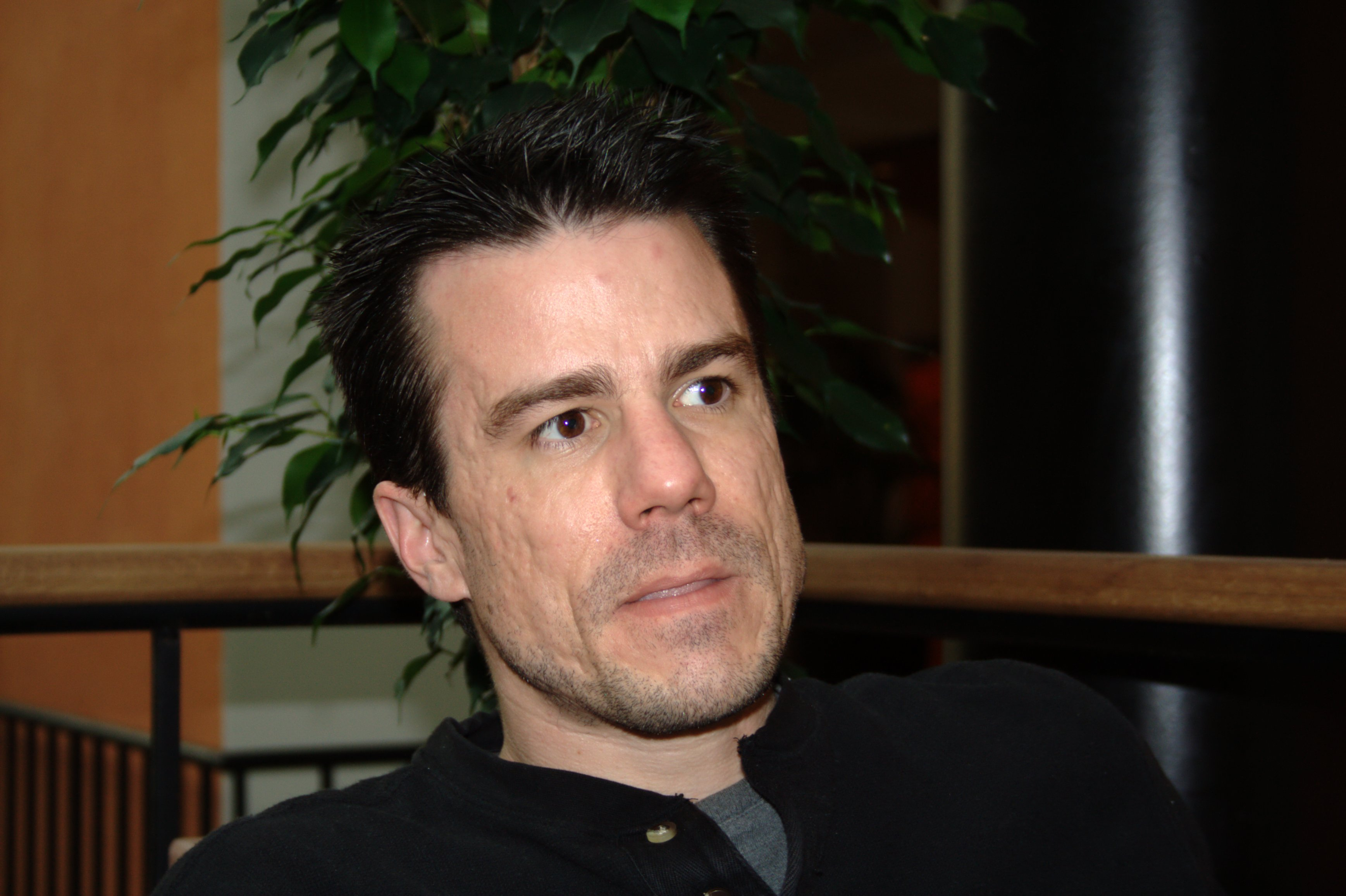 Ian Murdock (interview at the Holiday Club hotel).